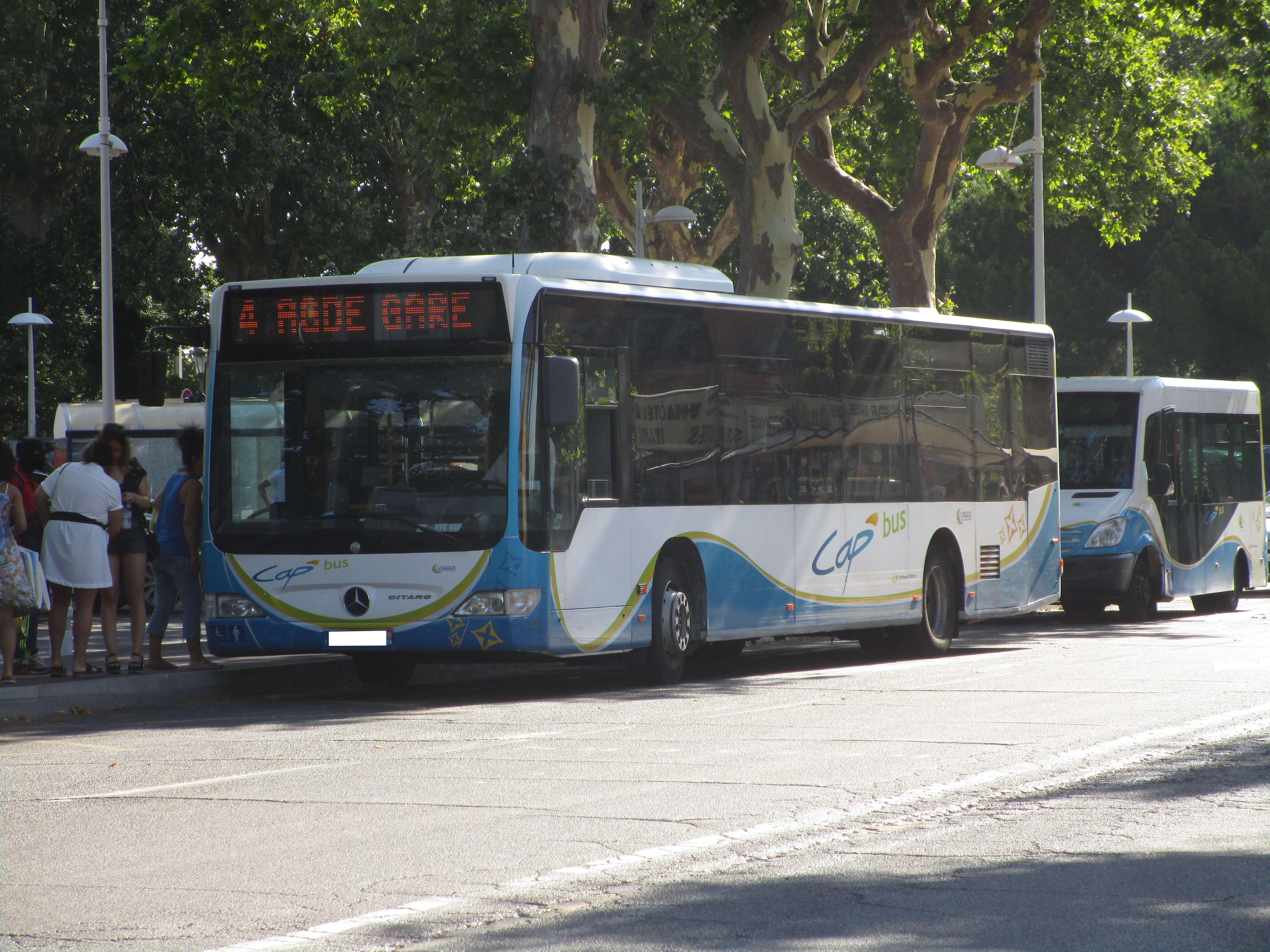 A Mercedes-Benz Citaro CI Facelift and a Mercedes-Benz Vehixel Cytios of Cap’Bus at the call Gare — in the Agde, France — on June 25, 2017.